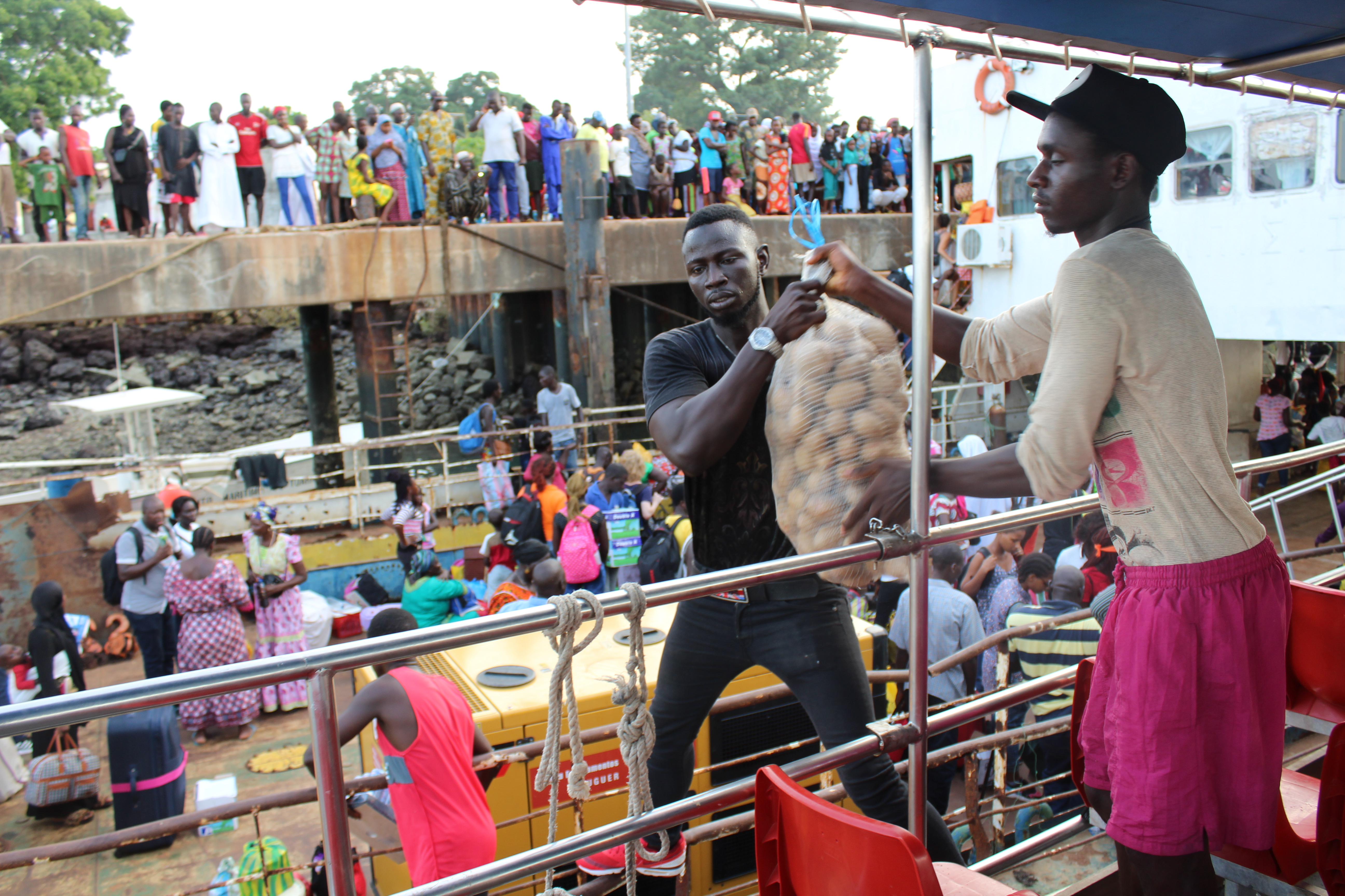 I tooked this picture in the Bobaqui Islands. My wife and me, went with the public ferry to the Island. In the island around there is tribes that women roll the the tribe. when we got there we sow this strong man unloading the ferry, and in the backround we herd the songs of women's from the island that welcoming by song one of them friend/ that came back from the capital This is an image of "African people at work" from Guinea-Bissau